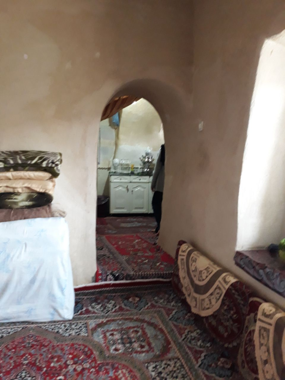 Village House